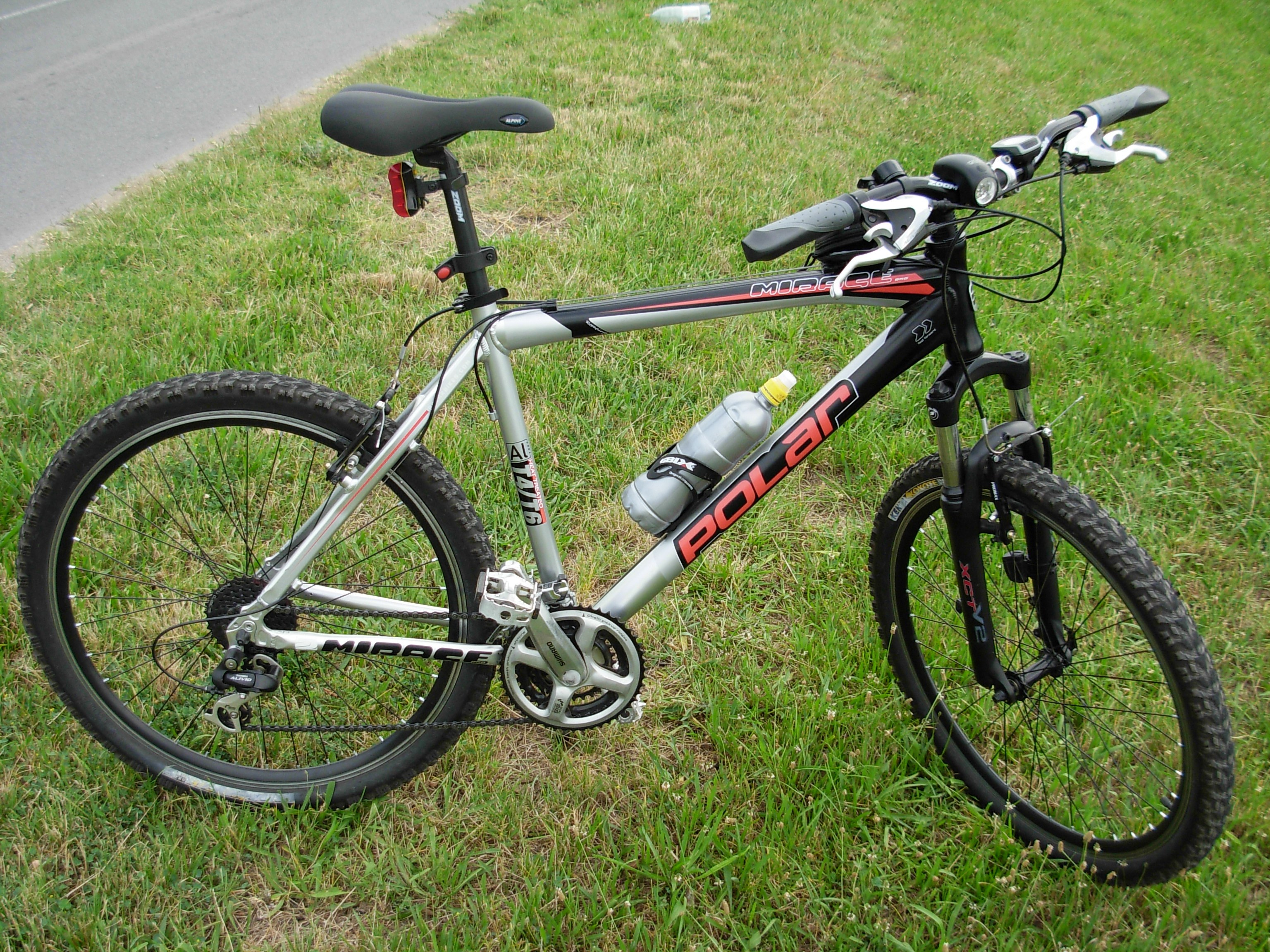 Polar mountain bike.